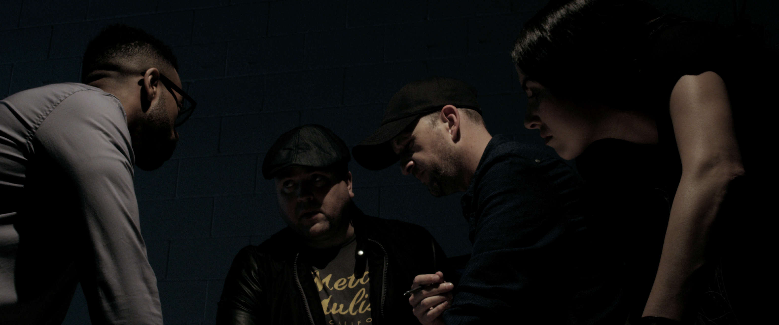 On set still shot with cast performing a scene for Resurrection.